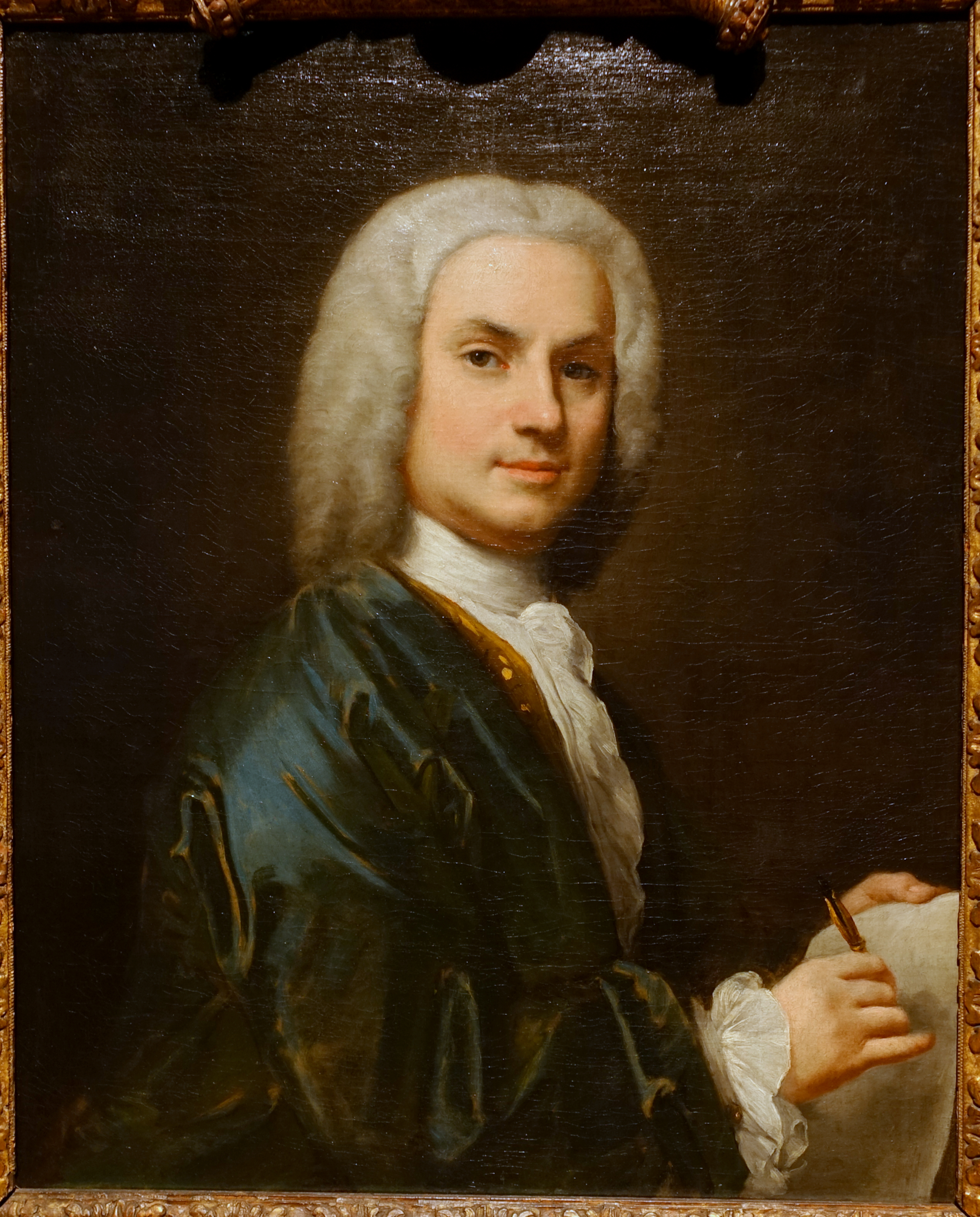 Exhibit in the Hessisches Landesmuseum Darmstadt - Darmstadt, Germany.